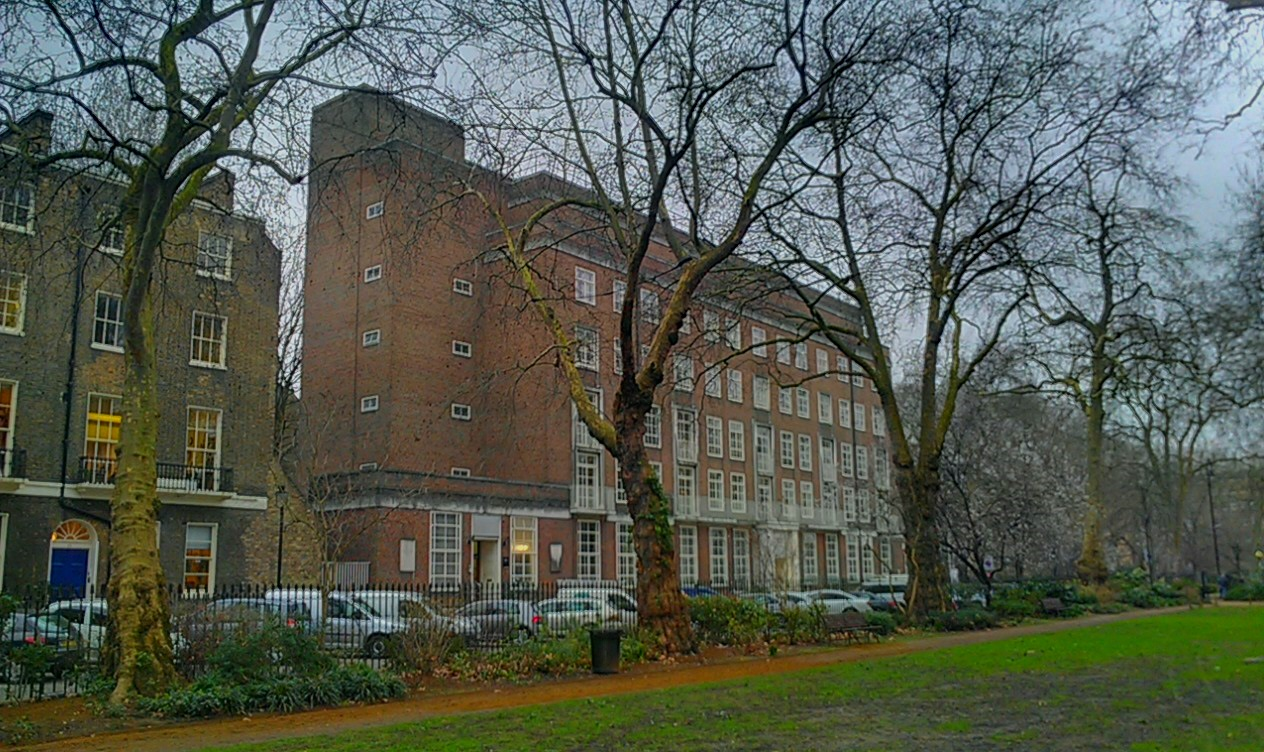 The Warburg Institute in Bloomsbury, London Borough of Camden, as seen from Woburn Square. This view is only accessible in winter, when there is no foliage on the trees.